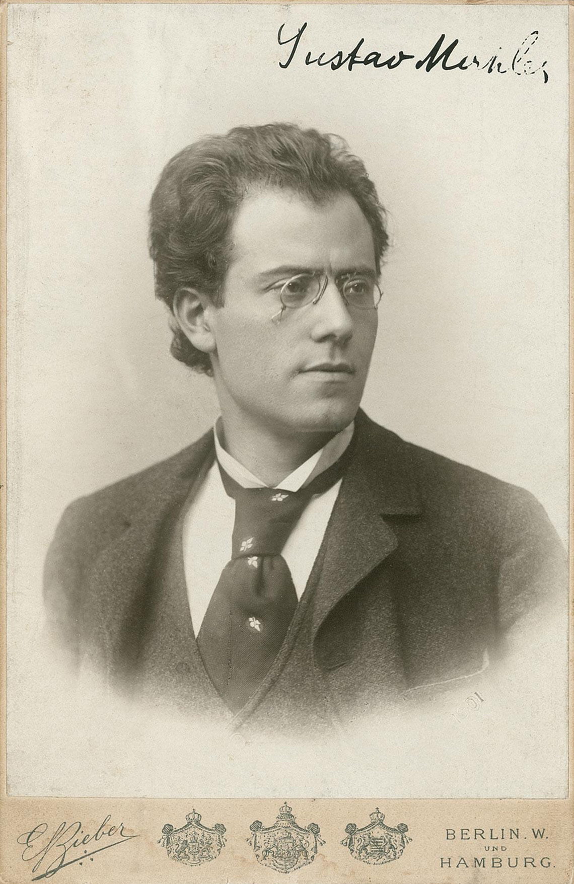 Cabinet photograph (6½" x 4¼") of Gustav Mahler: this work has been published in: (January 1901). "Gustav Mahler". Musical Record and Review (468): p. 28. Boston, United States: Oliver Ditson Company. Retrieved on 2010-03-30., and Kleefeld, Wilhelm (1904–05). "Wagner-Dirigenten". Velhagen & Klasings Monatshefte 19: p. 187. Berlin, Germany: Verlag von Velhagen & Klafing. Retrieved on 2010-03-30.